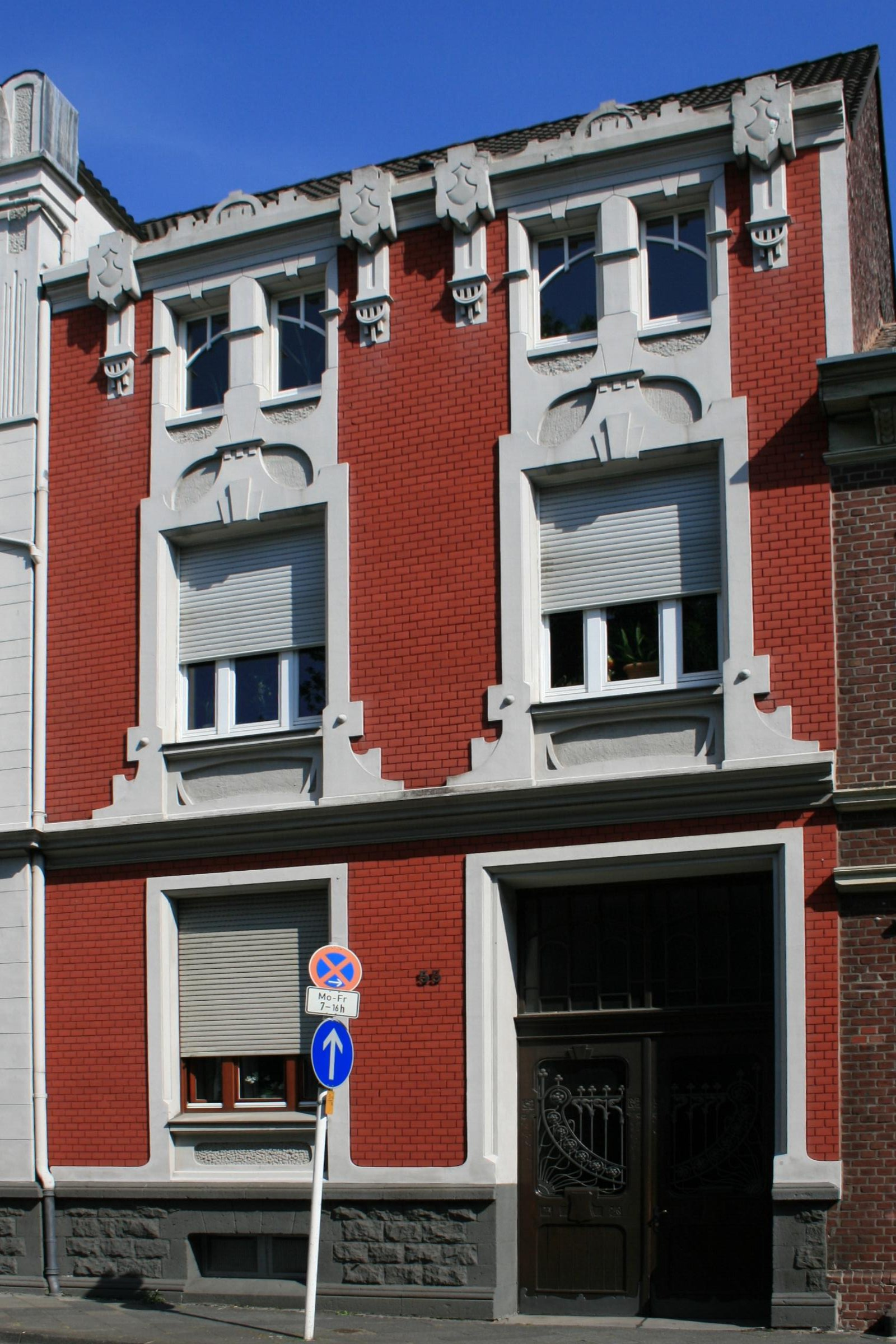 Cultural heritage monument No. N 013 in Mönchengladbach